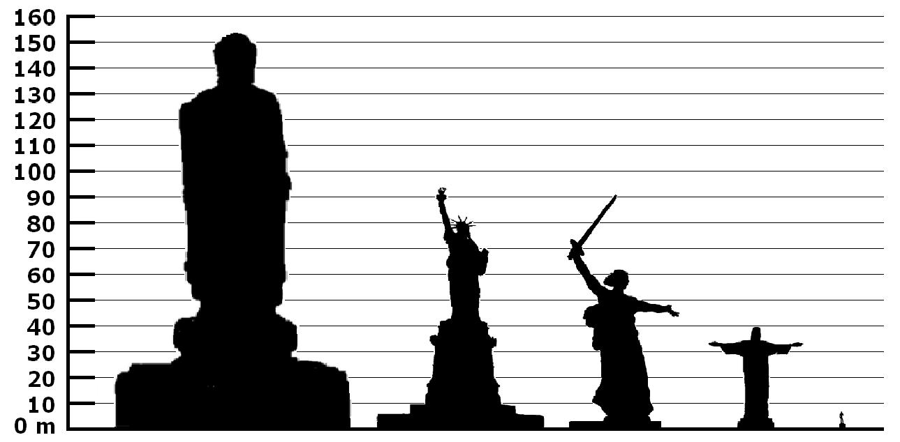 Height comparison of notable statues: Spring Temple Buddha 153 m Statue of Liberty 93 m The Motherland Calls 91 m Christ the Redeemer 39.6 m Statue of David 5.17 m